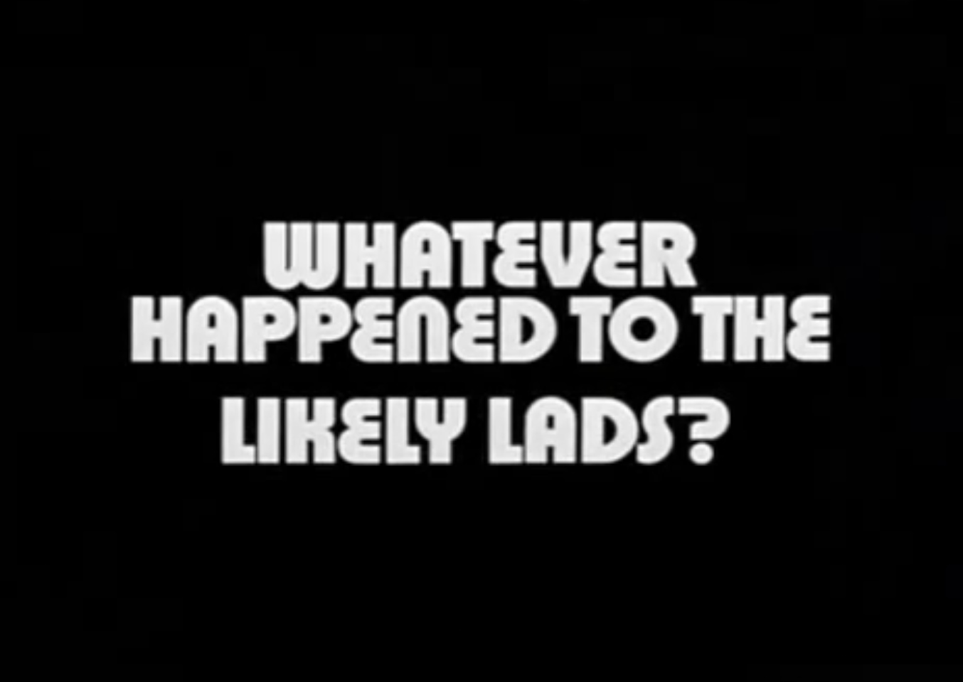 Opening title sequence of the British television series Whatever Happened to the Likely Lads?